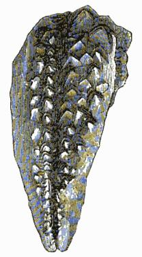 Illustration of the maxilla of Hyperodapedon huxleyi, showing the oral surface of the right palato-maxilla. Printed in A manual of palaeontology for the use of students, with a general introduction on the principles of palaeontology (Vol. II) by Henry Alleyne Nicholson and Richard Lydekker (1889). Originally from A manual of the geology of India by Henry Benedict Medlicott and William Thomas Blanford (1879).